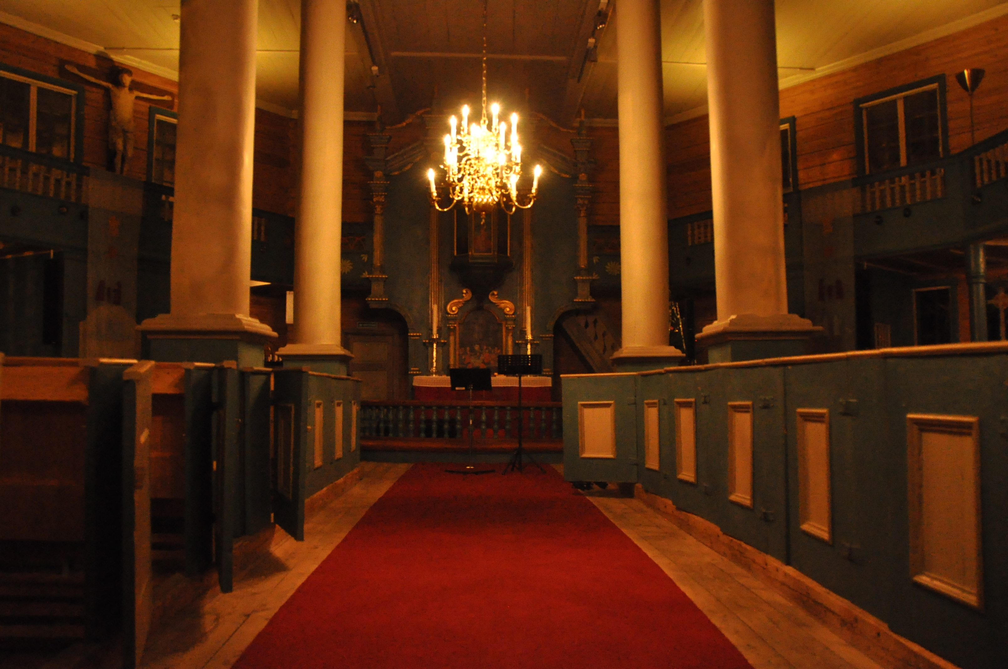 Grytten Church interior, crucifix, altar. No flashlight used